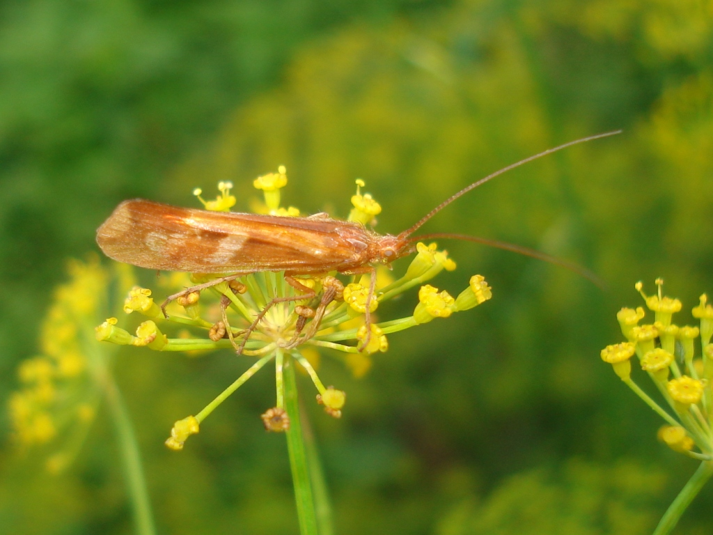 Limnephilus lunatus